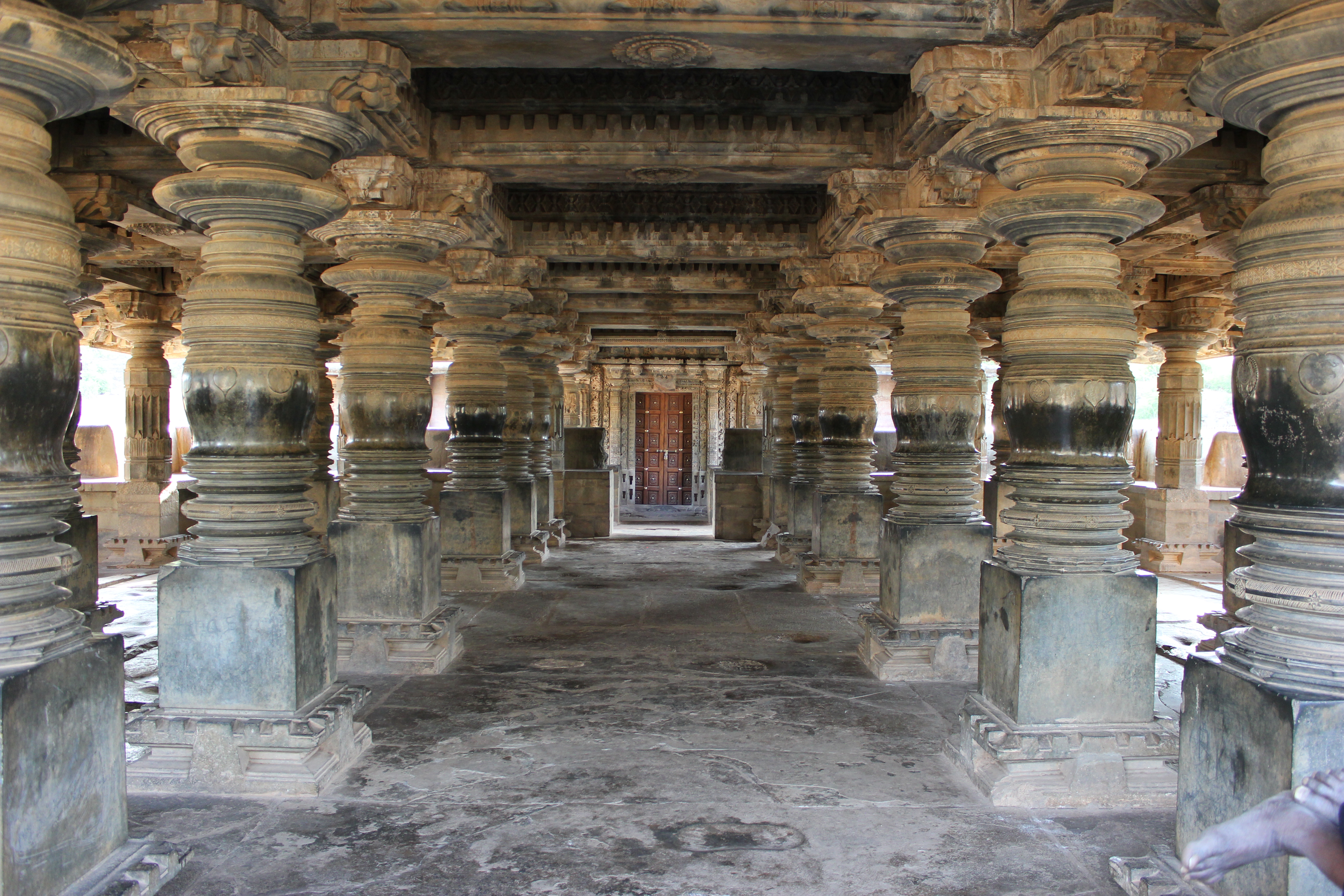 The Nagareshvara temple (also called Aravattu Kambada Gudi literally meaning "60 pillared temple") was built by the Kalyani (western) Chalukyas in the late 11th century - early 12th century AD during the rule of King Vikramaditya VI. Bankapura is a town located in the Haveri district of the Karnataka state, India.